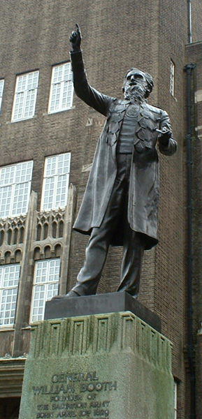 William Booth statue outside the Salvation Army college in Camberwell, South London, UK. Taken by C Ford, 21st February 2004.